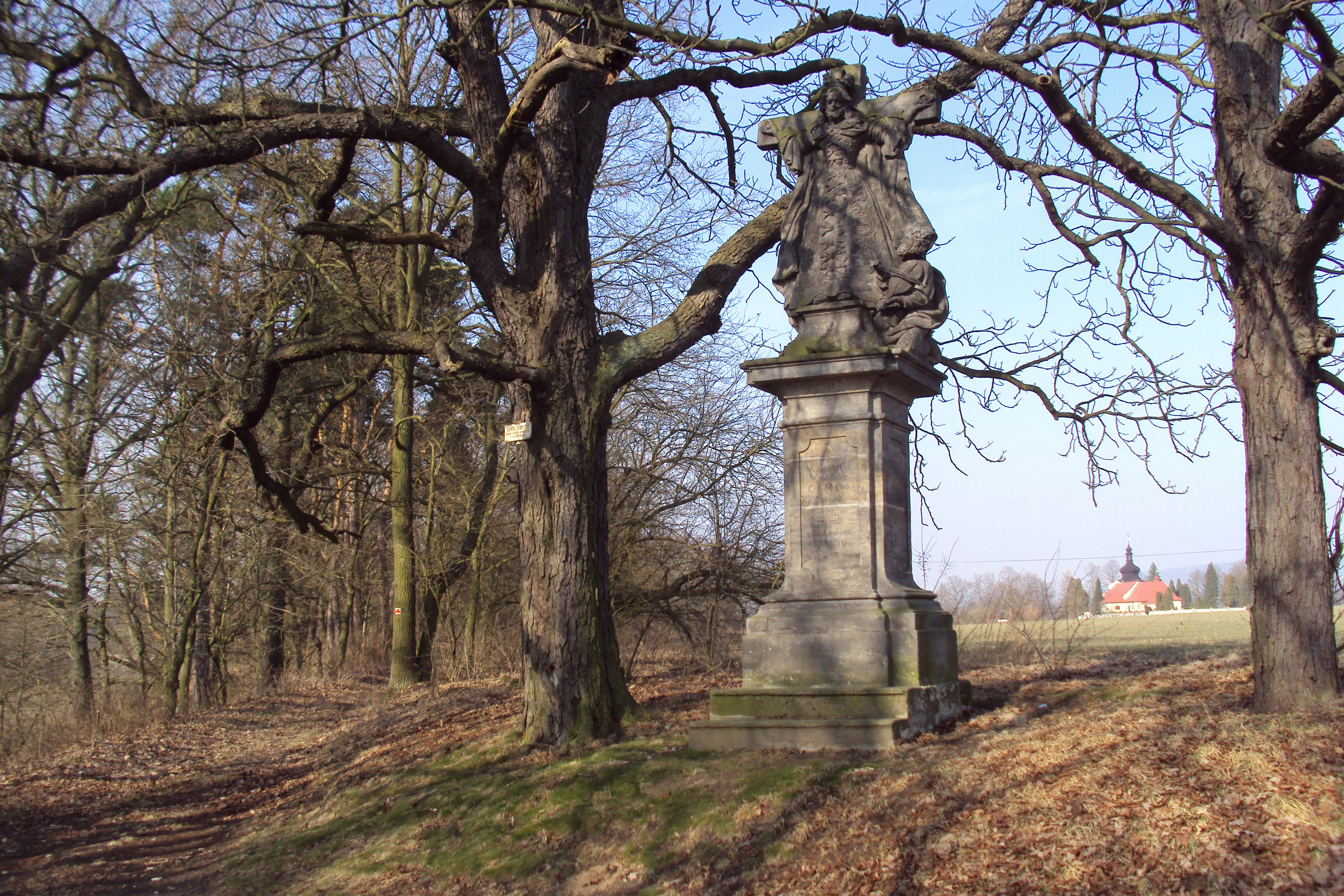 Statue of Saint Wilgefortis near Zahrádky, Česká Lípa District, Czech Republic